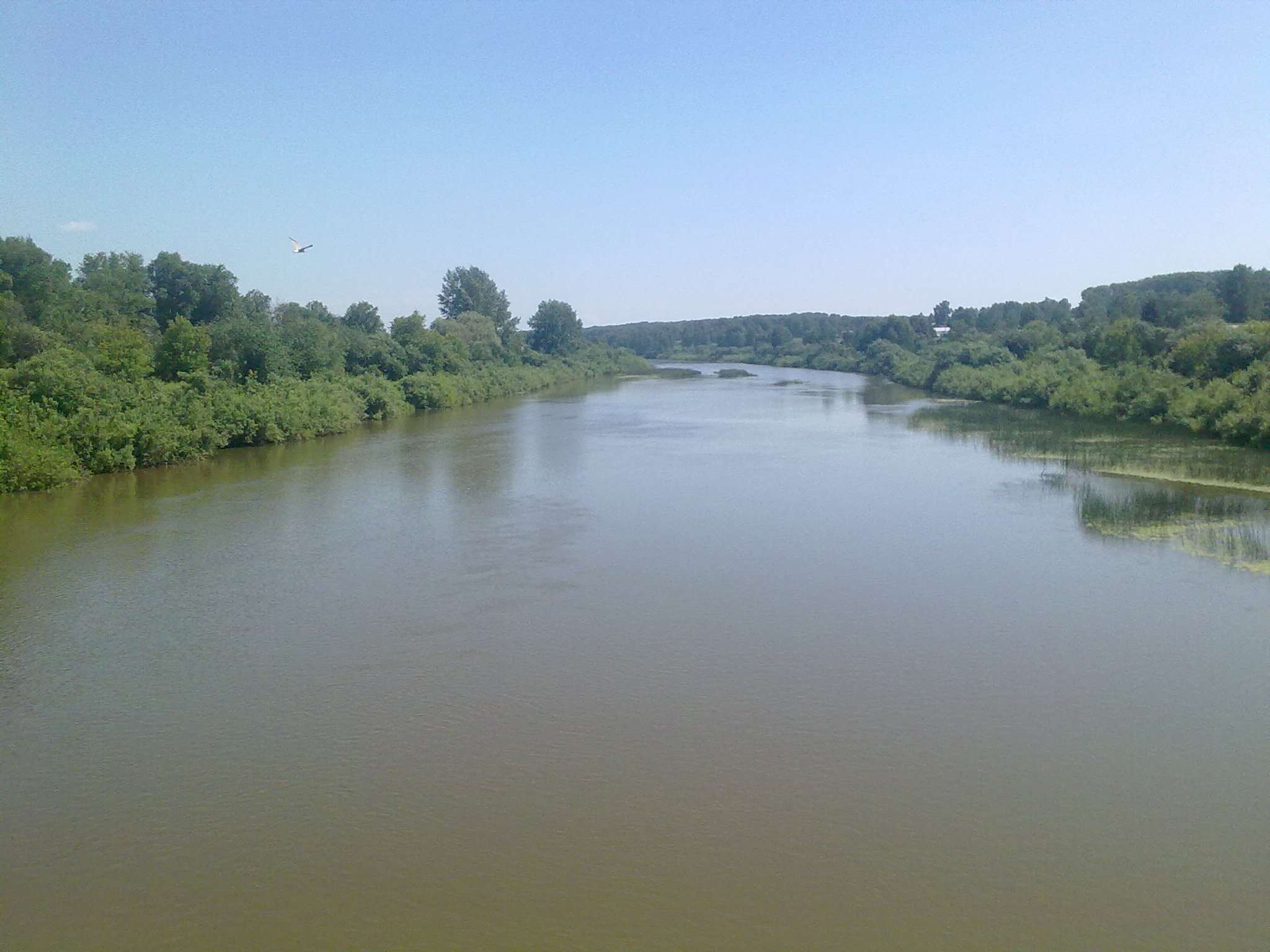 Inya river near Lnikha village